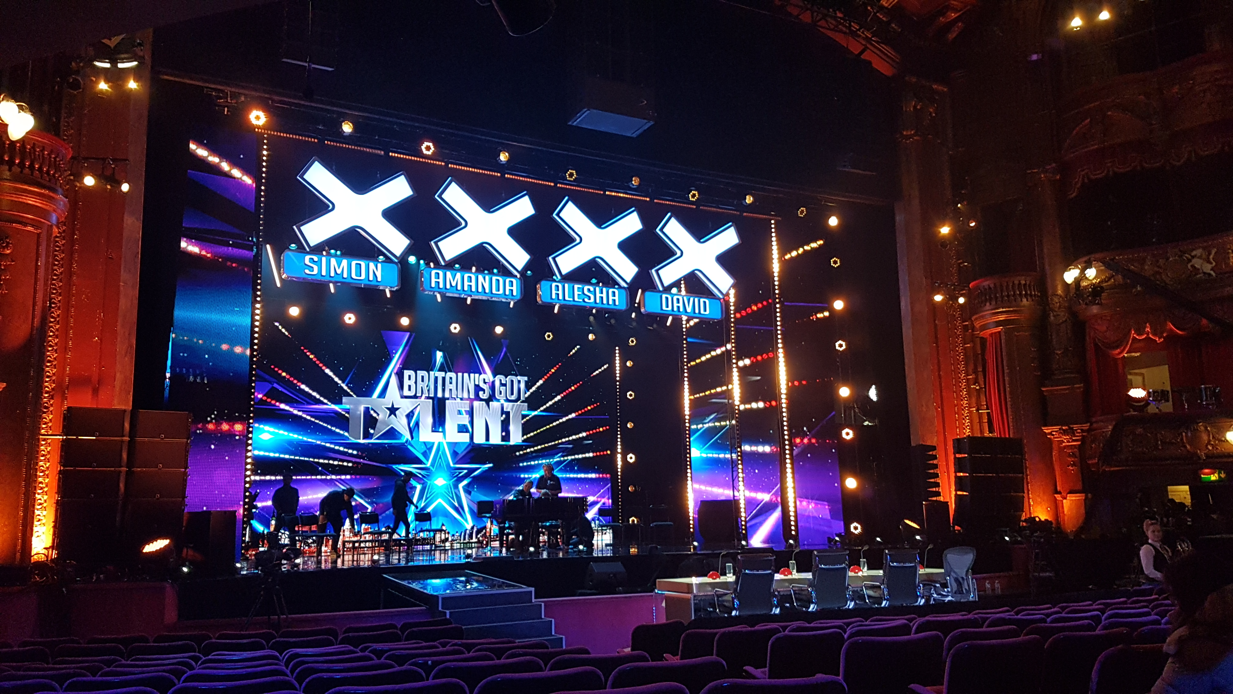 The set of the Britain's Got Talent auditions at the London Palladium theatre on 22 January 2019. Photography was not permitted during the performances.